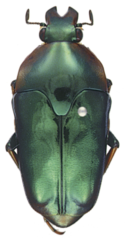 Type specimen of Lomaptera hoyoisi Rigout